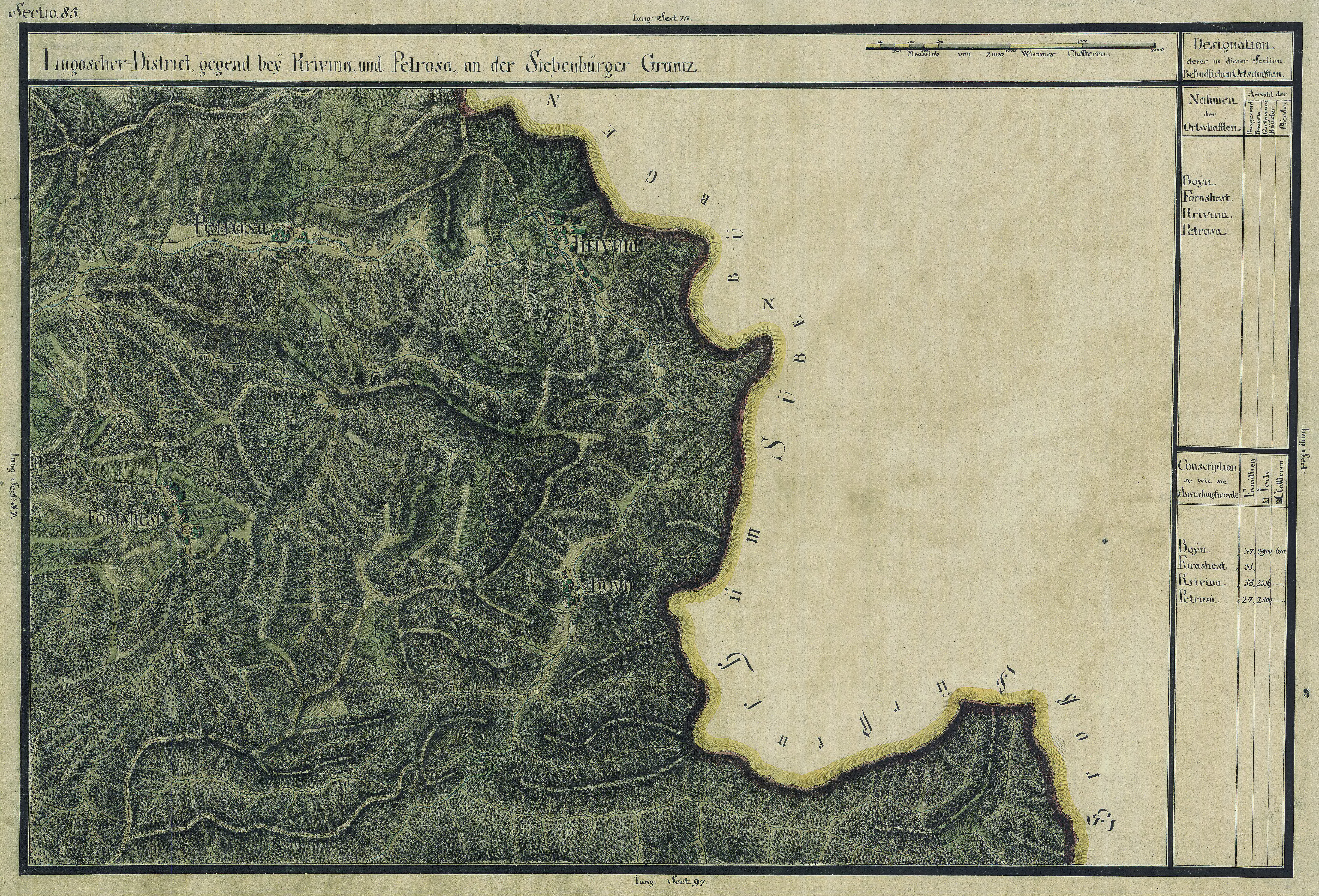 The Banat region in the cadastral maps: Josephinische Landesaufnahme, 1769-72. Josephinische Landaufnahme pg085